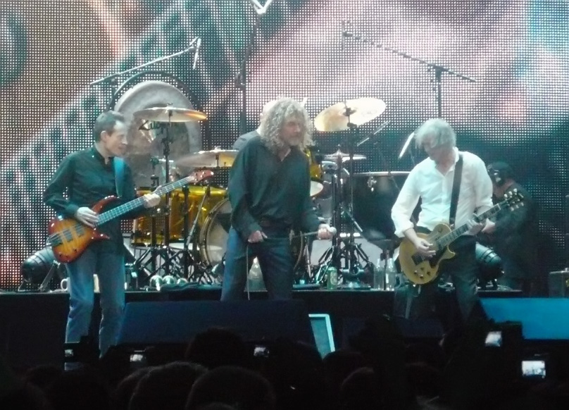 A reunited Led Zeppelin in December 2007 at The O2 in London for the Ahmet Ertegün tribute show. From left to right: John Paul Jones, Robert Plant, and Jimmy Page. On drums is Jason Bonham, the son of the deceased John Bonham.